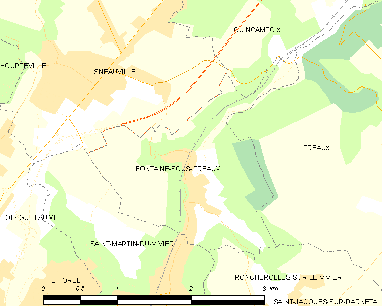 Map of French municipality Fontaine-sous-Préaux